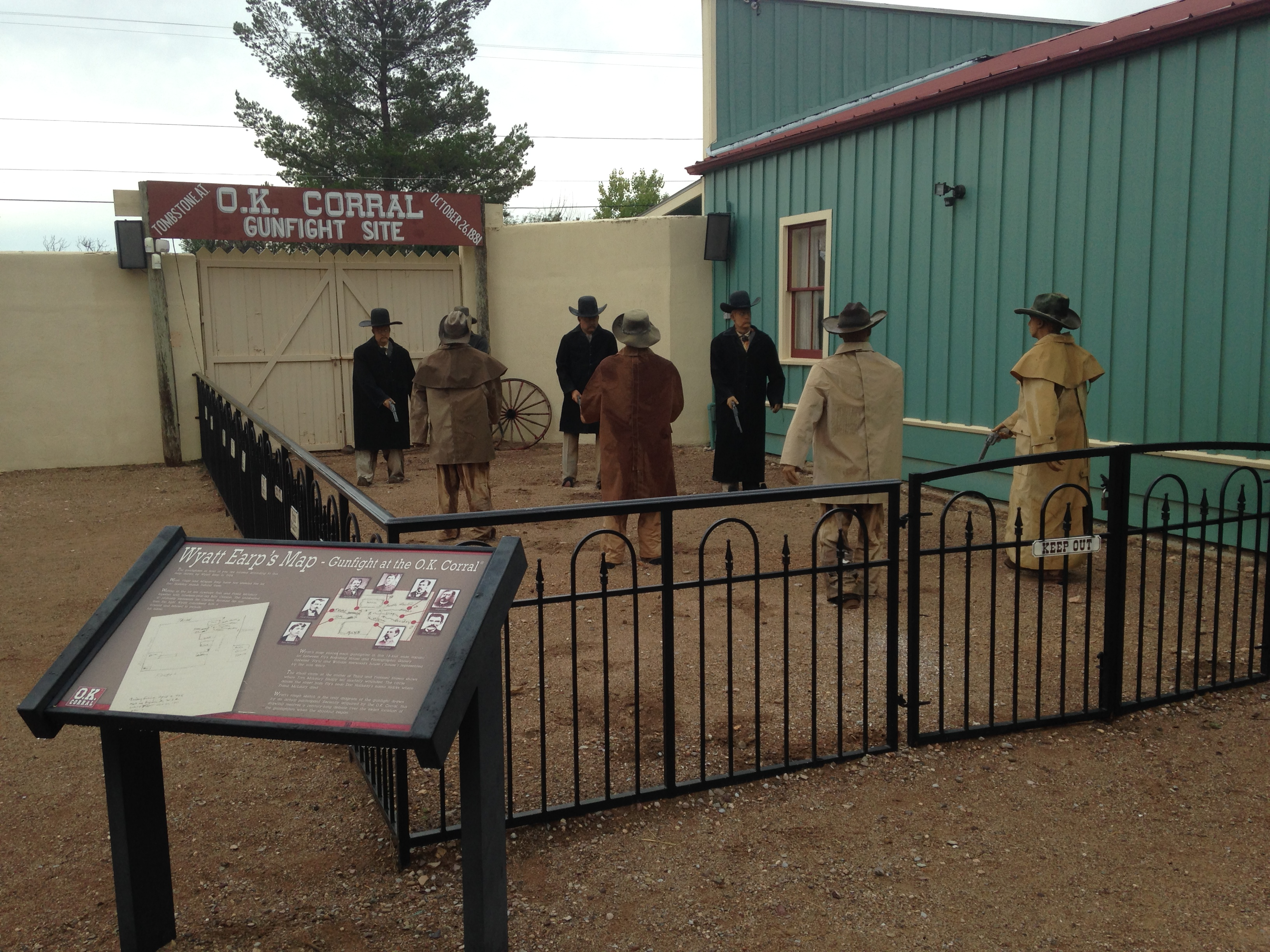 Tombstone Historic District, U.S. Route 80 Tombstone